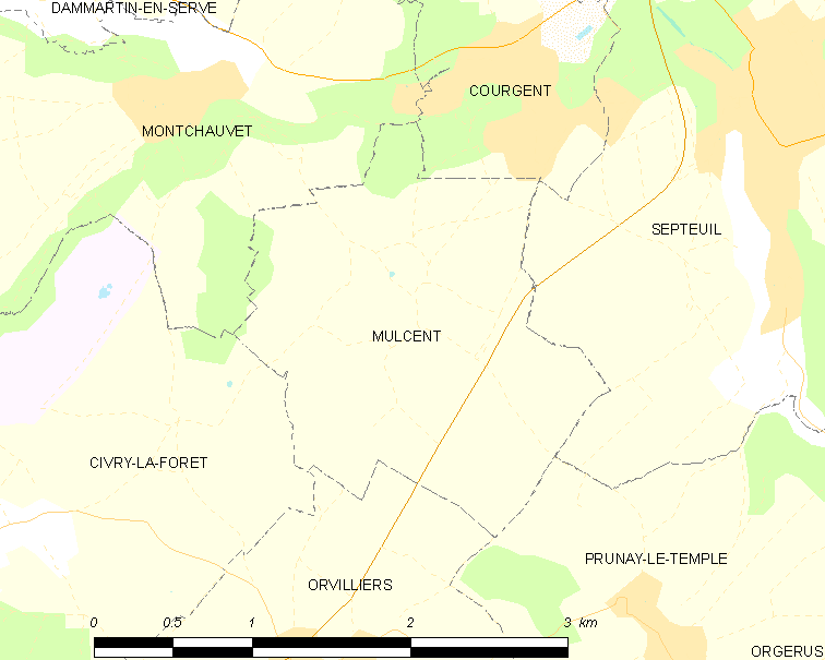 Map of French municipality Mulcent